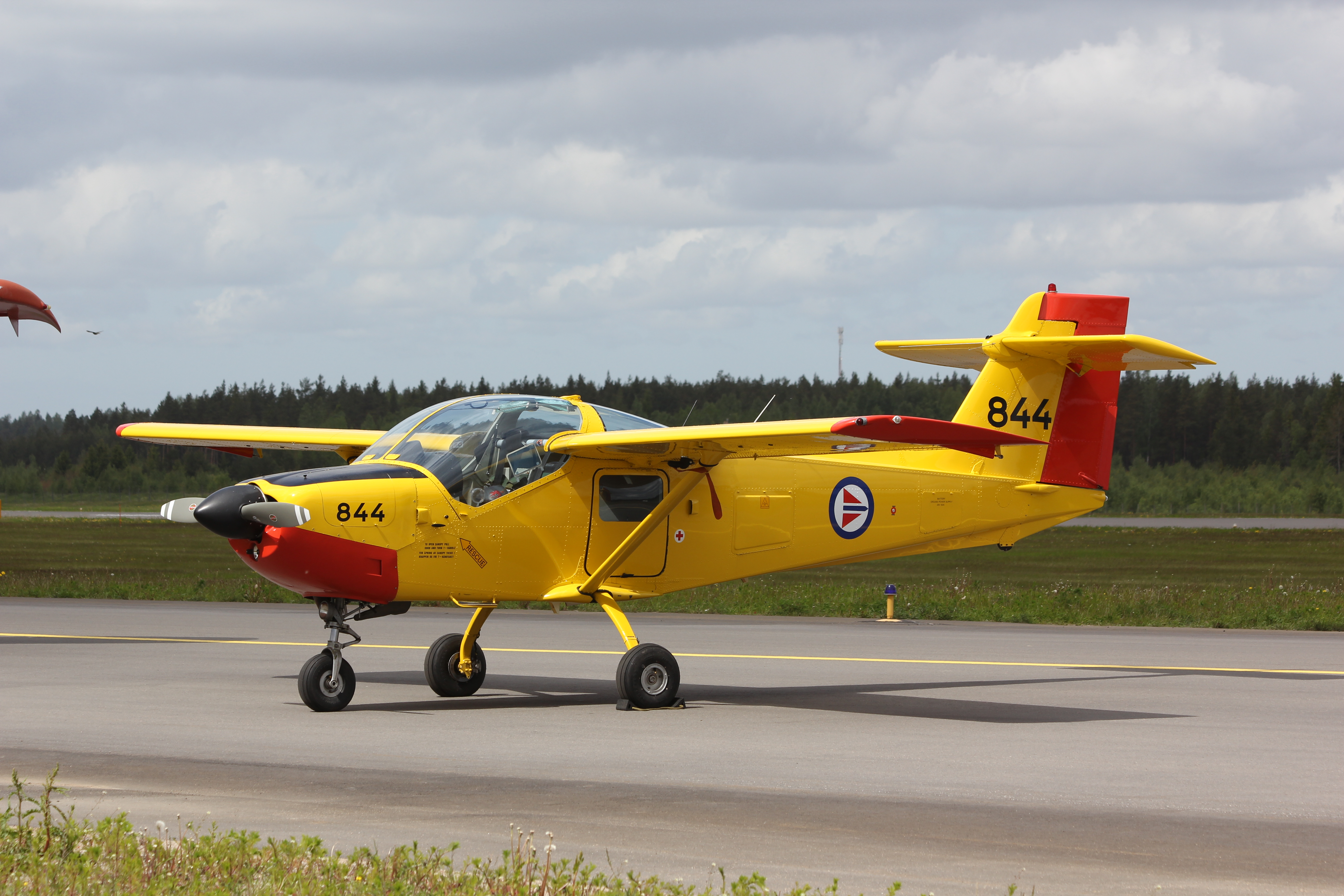 Norwegian air force Yellow Sparrows team Saab MFI-15 Safari (844) in Turku Airshow 2015.